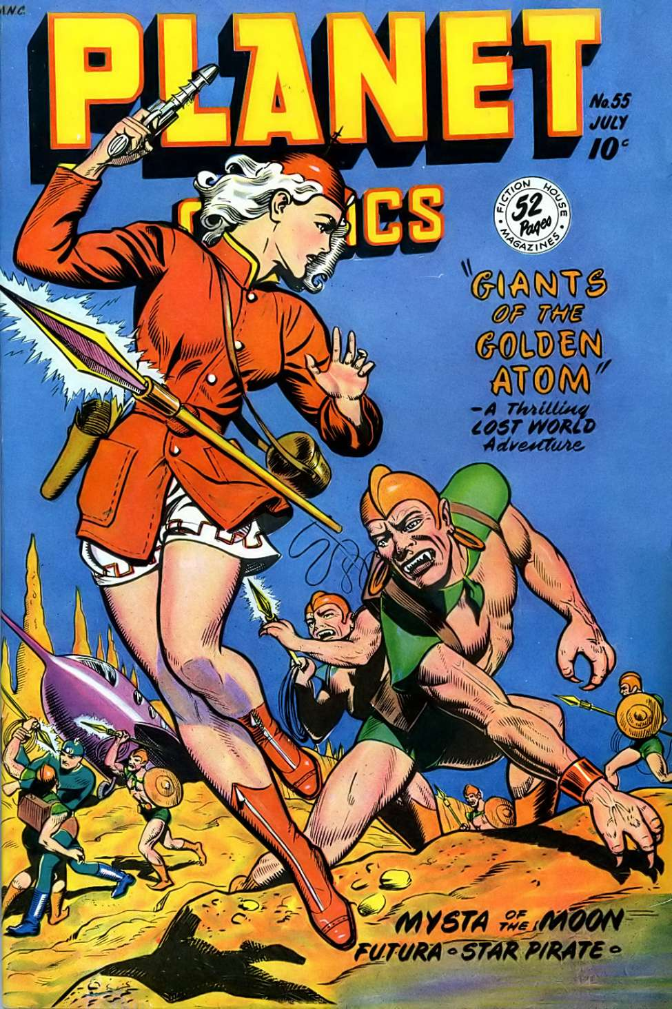 Cover scan of Planet Comics, No. 55, edited by Fiction House.